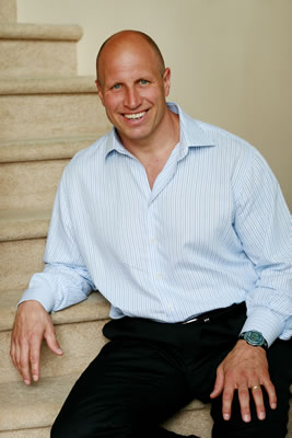 Bob Molle